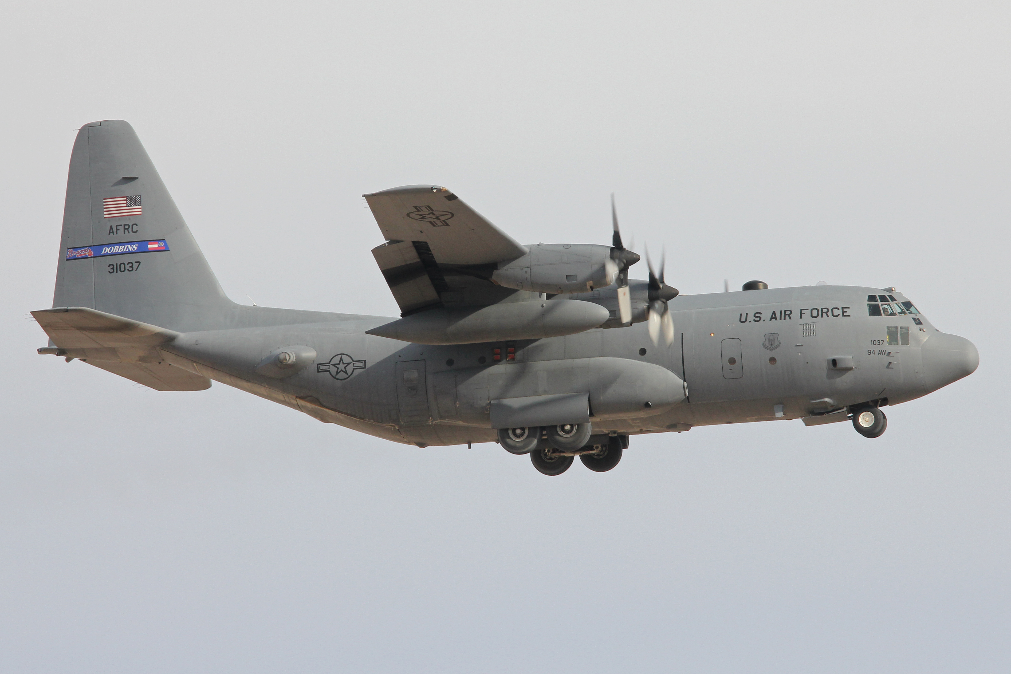 c/n 382-5369. Full US military serial 93-1037. Operated by the 700th Airlift Sqn, part of the 94th Airlift Wing based at Dobbins ARB, GA. Returning from a mission as part of Red Flag 16-2. Nellis AFB, NV, USA. 3rd March 2016